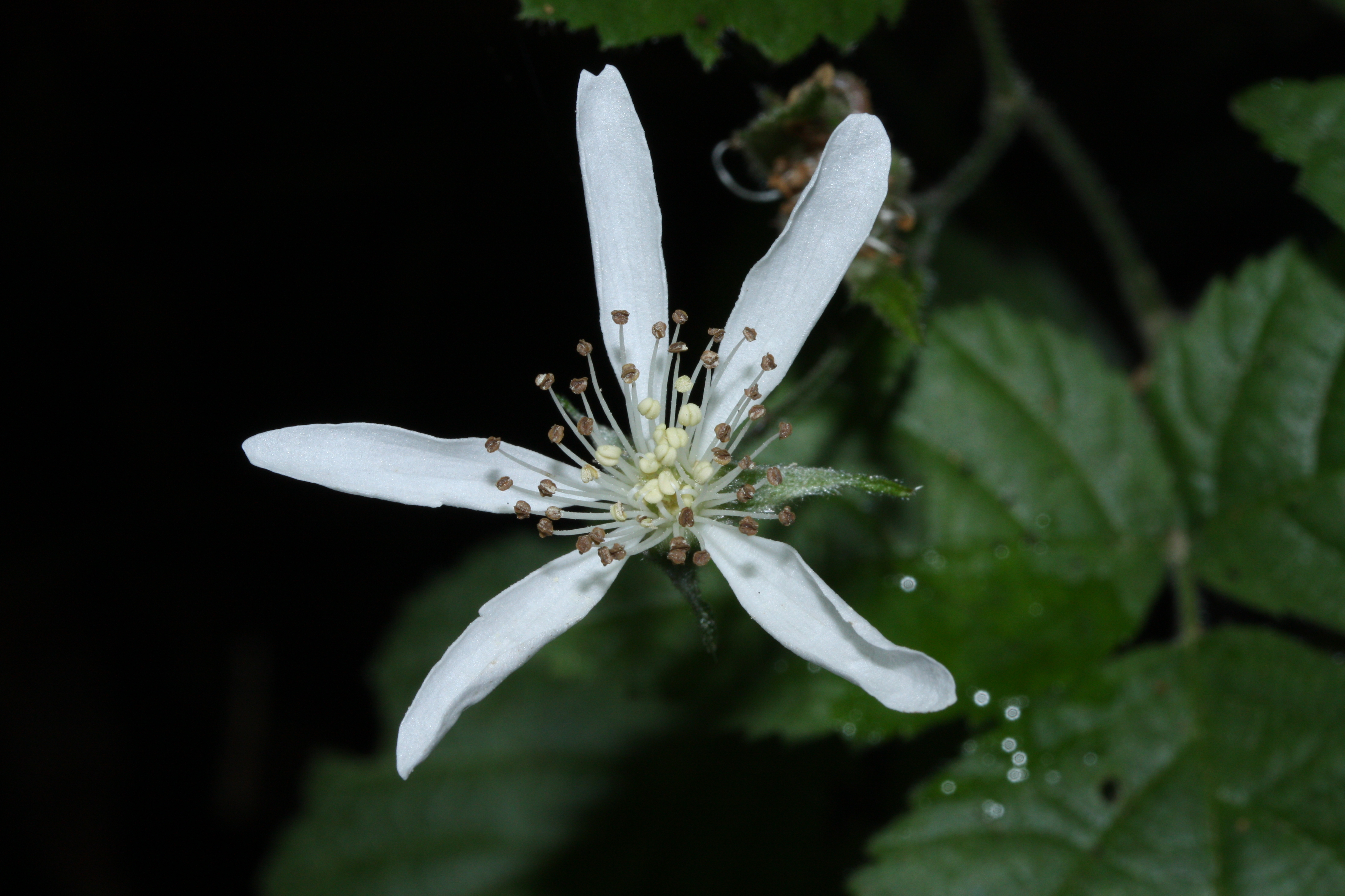 California Blackberry, Dewberry